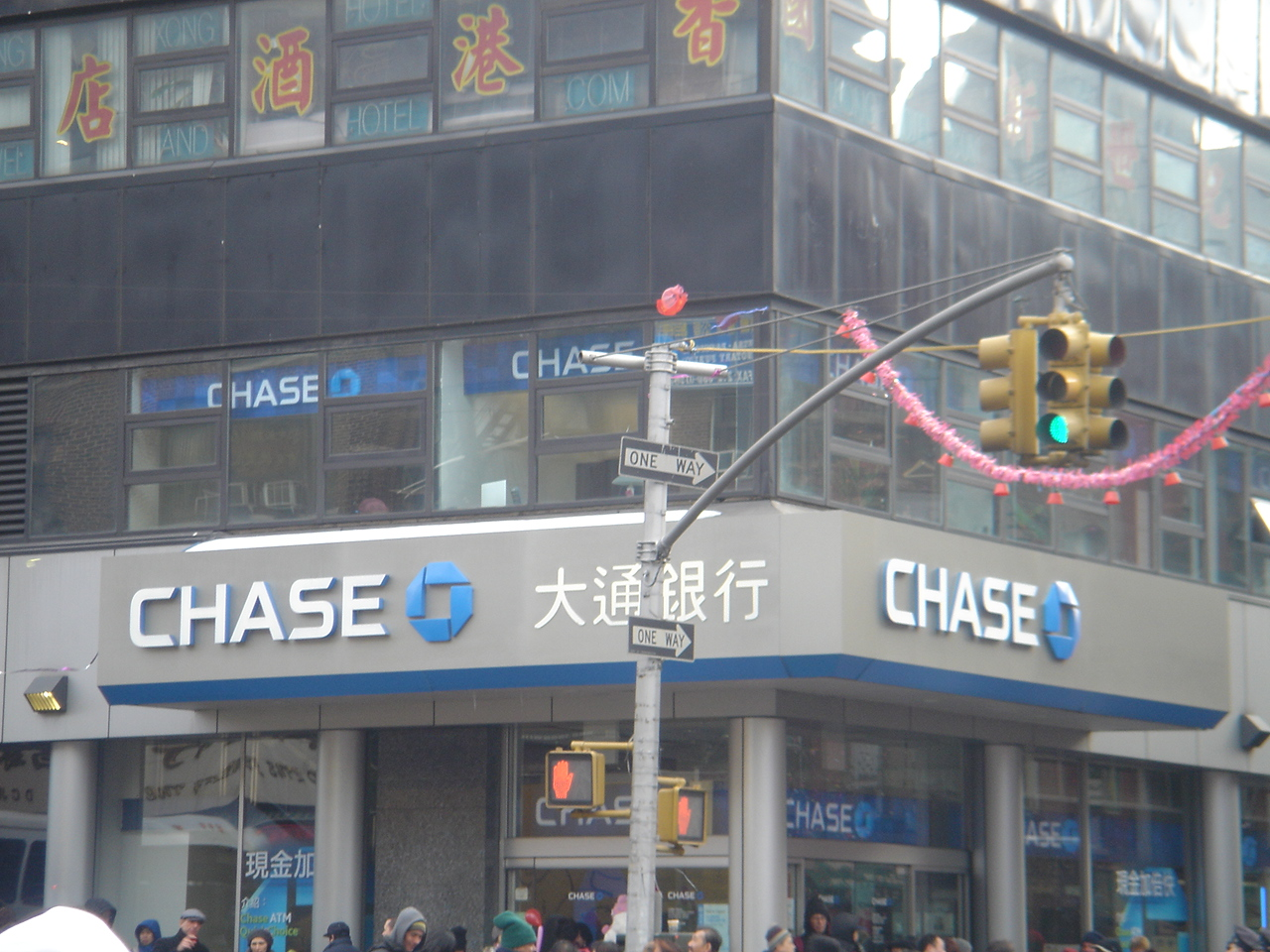 Chase Bank (Chinese: 大通銀行 Dàtōng Yínháng) Chinatown branch in Chinatown, Manhattan - 180 Canal Street New York, NY 10013